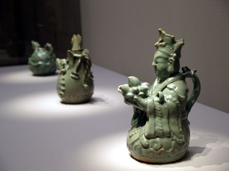 Korea-Goryeo Dynasty-Wine ewer in the shape of a seated immortal. National Treasure no. 167. National Museum of Korea, Seoul.